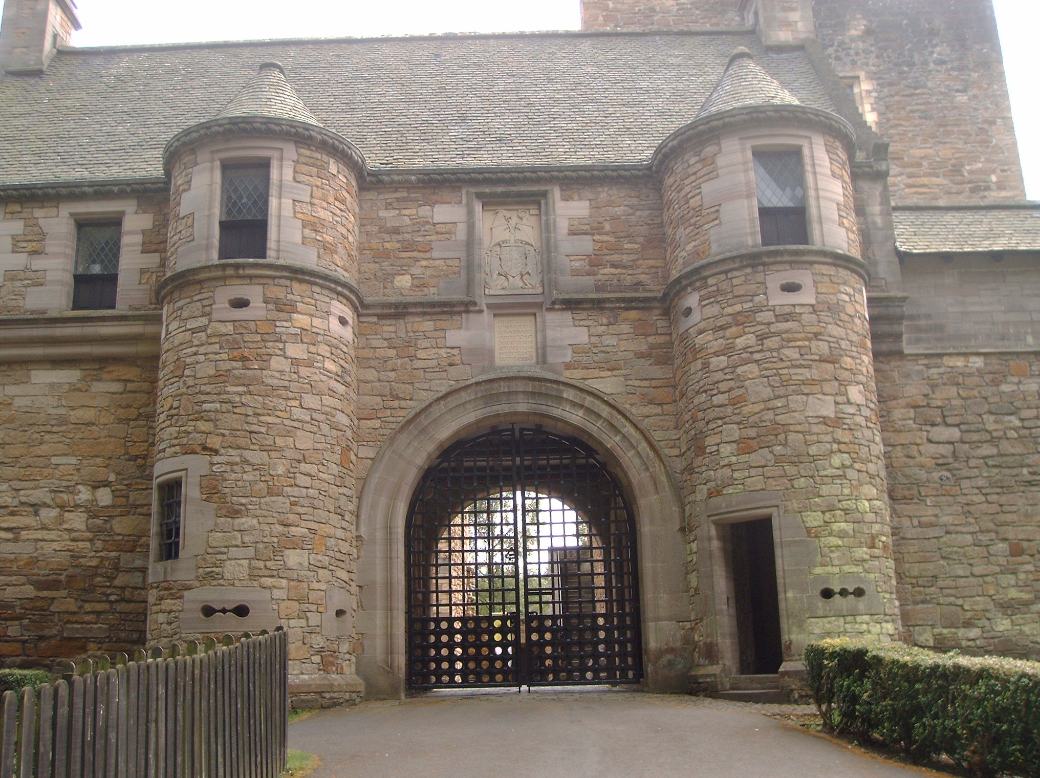 The gatehouse at Dean Castle, Kilmarnock